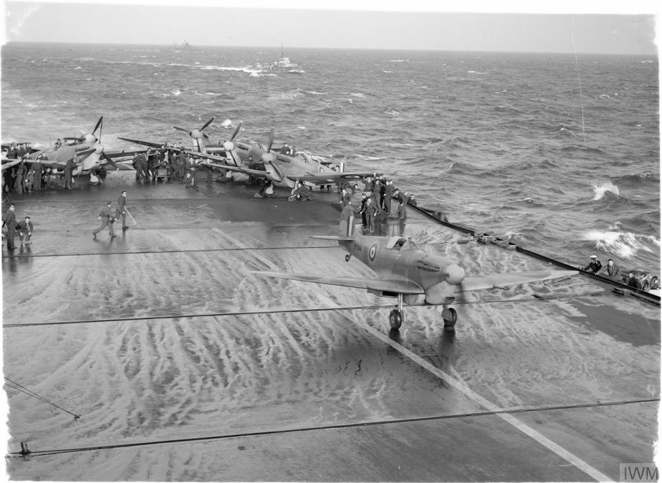 Royal Air Force- Malta and the Mediterranean, 1940-1943. Operation PICKET I: Supermarine Spitfire Mark VB(T), BP844, the first of a further nine Spitfires to reinforce the RAF on Malta, taking off from the flight deck of HMS EAGLE with Squadron Leader E J "Jumbo" Gracie at the controls. Behind him, the other aircraft await their turn. These Spitfires, equipped with 90-gallon ferry drop tanks, flew to Ta Kali to re-equip No. 126 Squadron RAF, which Gracie was to command. BP844 was shot down over Malta, with the loss of its pilot, on 2 April 1942.